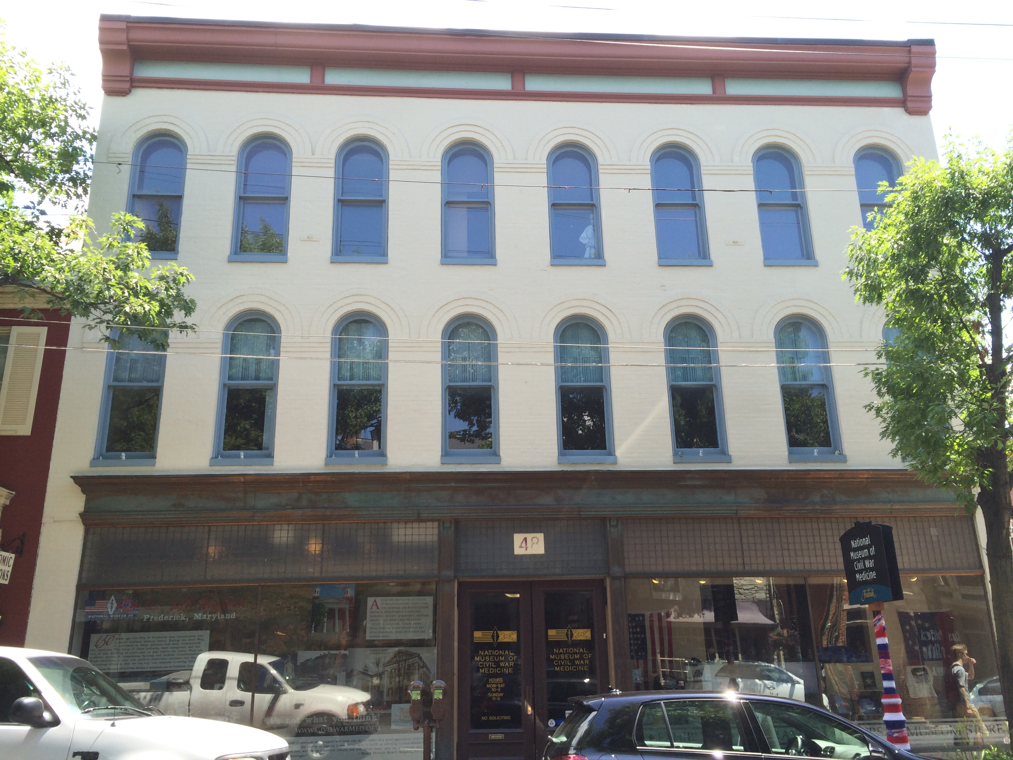 The building housing the National Museum of Civil War Medicine — in Frederick, Maryland.